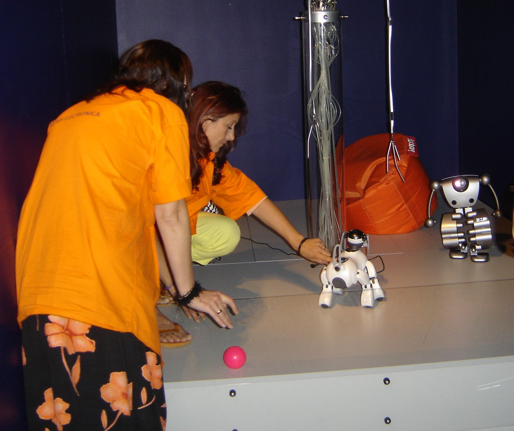 Members of the Ars Electronica Center staff showcase some entertainment robots. (Linz, 2005) Photographer: Erik Möller